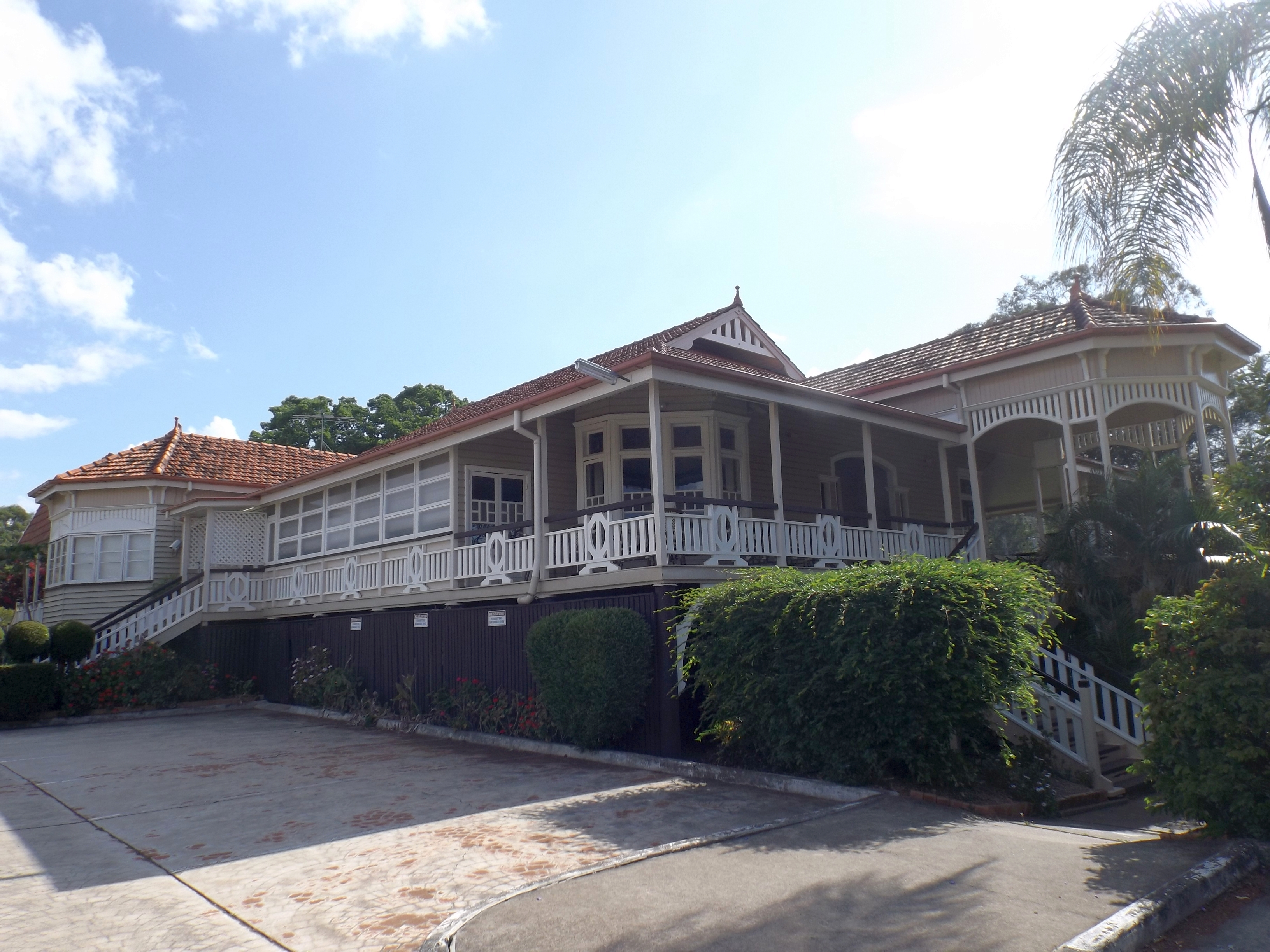 Photo of the side of the Ipswich Club House and its car park in Ipswich, Queensland, Australia.